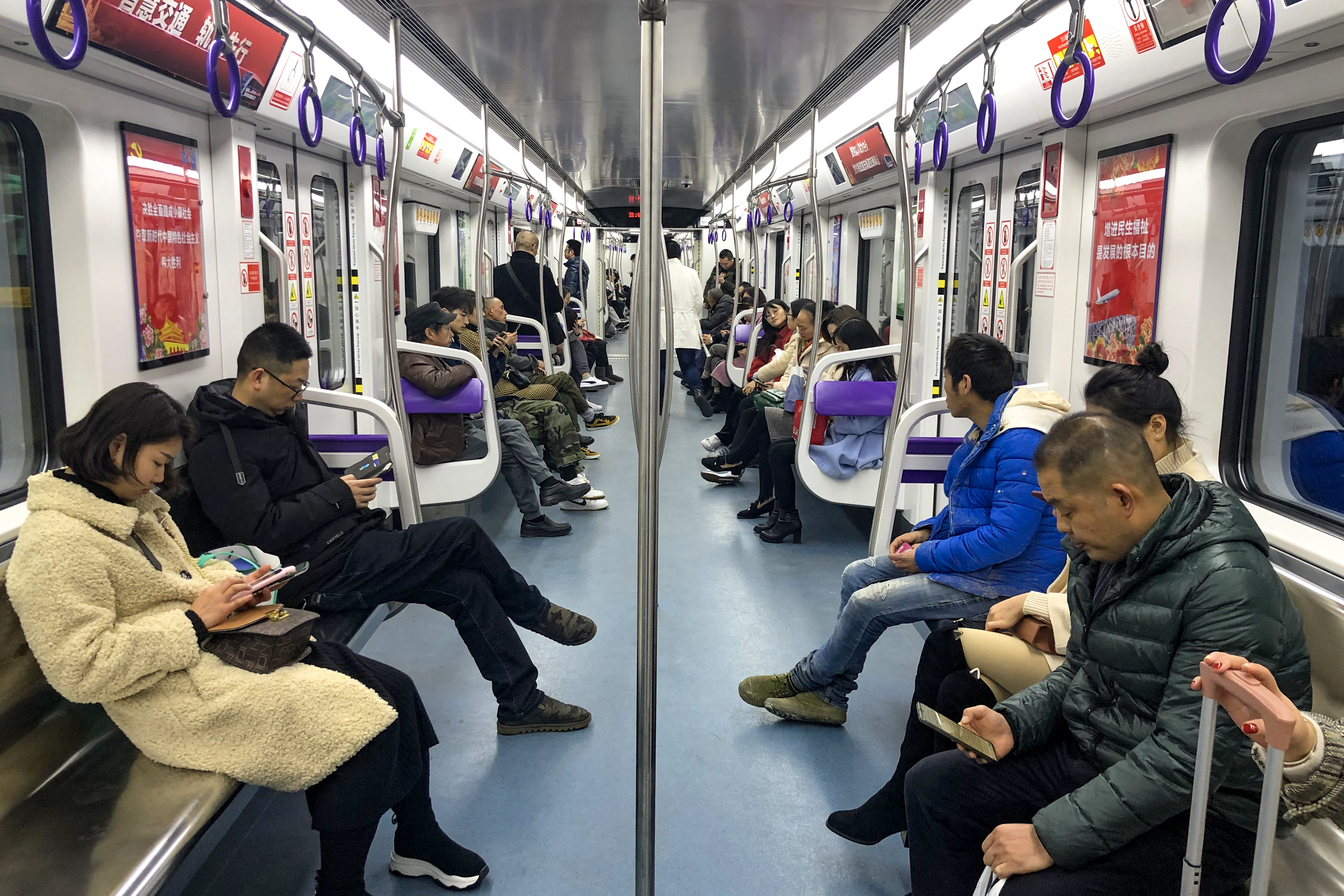 See the Christmas Eve traffic...